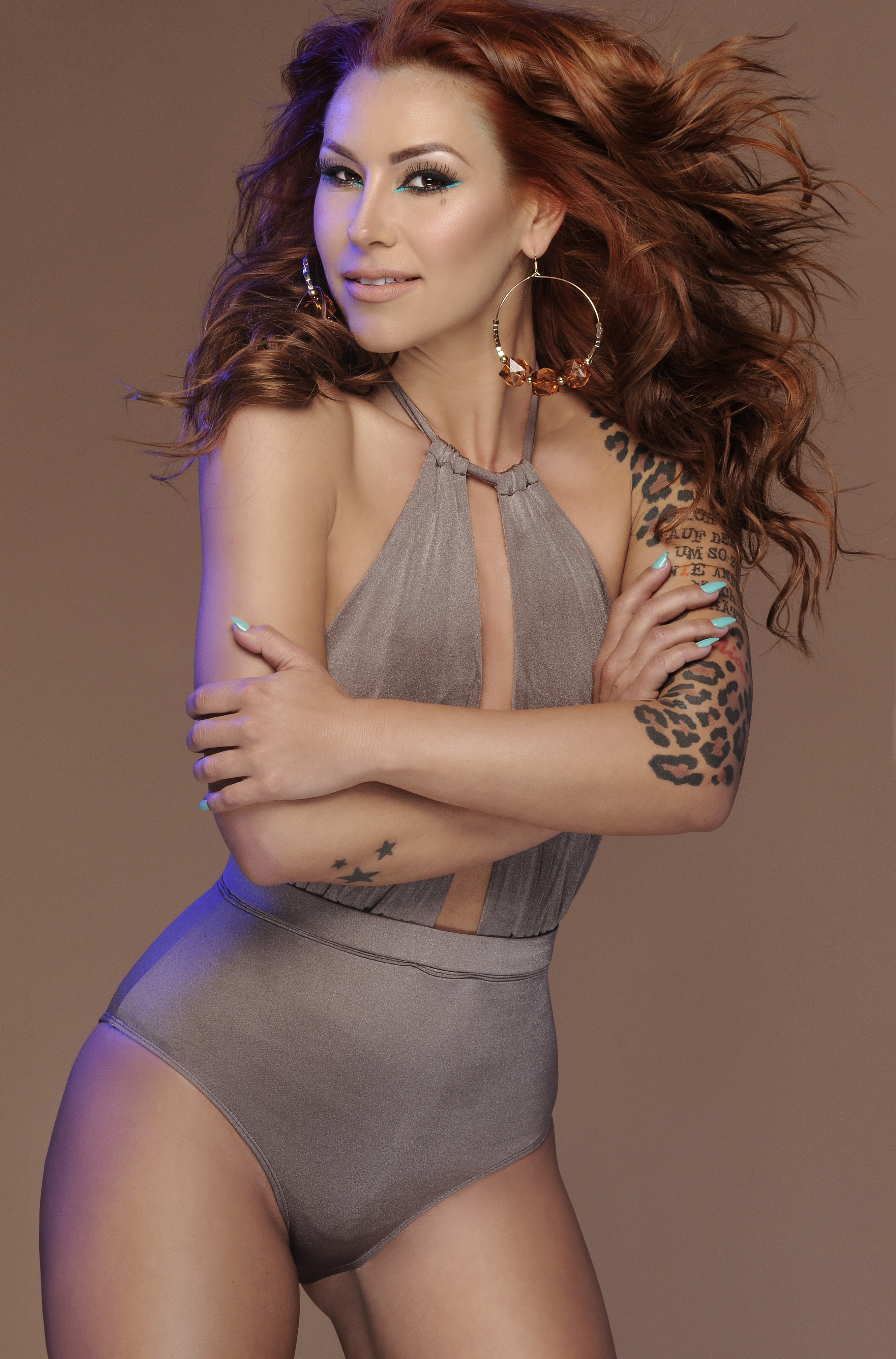 Tiger Kirchharz, dancer, choreographer, film actor, model